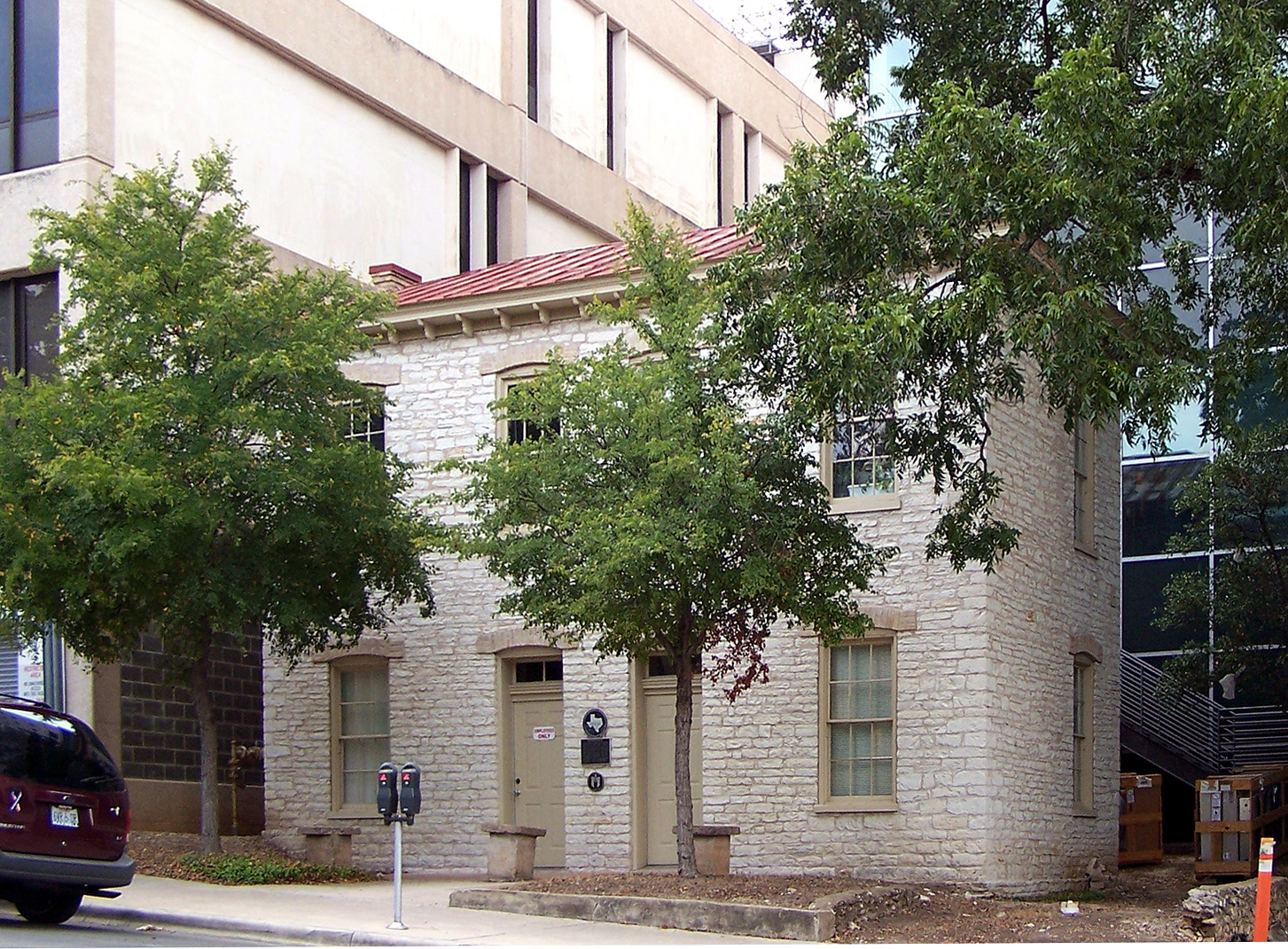 The Brizendine House, built about 1870 and located at 507 W 11th St, Austin, Texas, United States. The building was listed on the National Register of Historic Places on July 22, 1974 and designated a Recorded Texas Historic Landmark the same year.